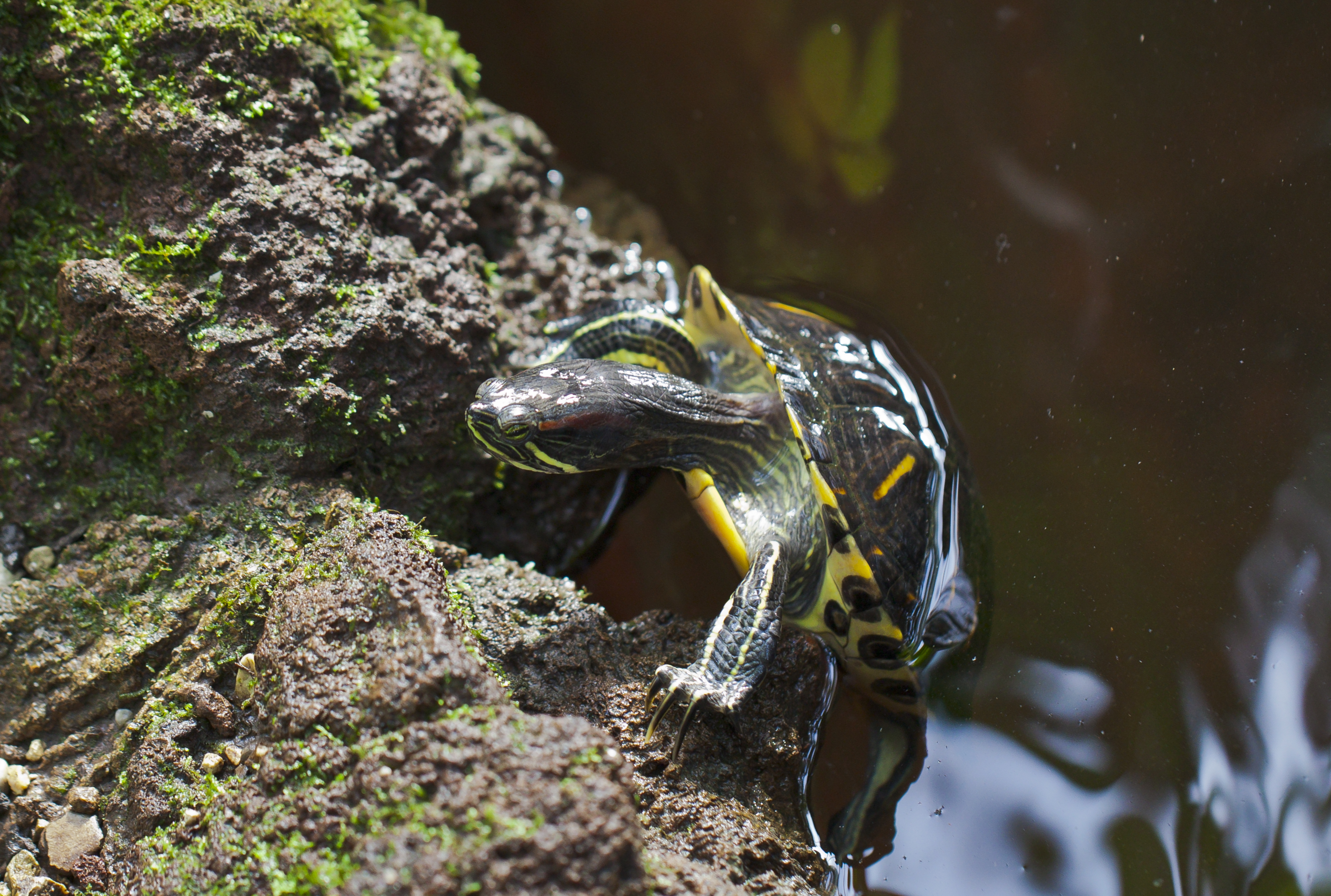 Red-eared slider (Trachemys scripta elegans), Munich Botanic Garden, Germany